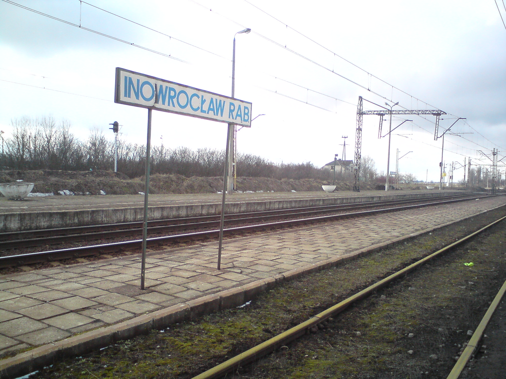 Railway station Inowrocław Rąbinek